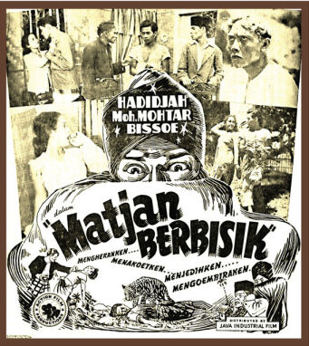 This is the film poster for the 1940 film Matjan Berbisik.